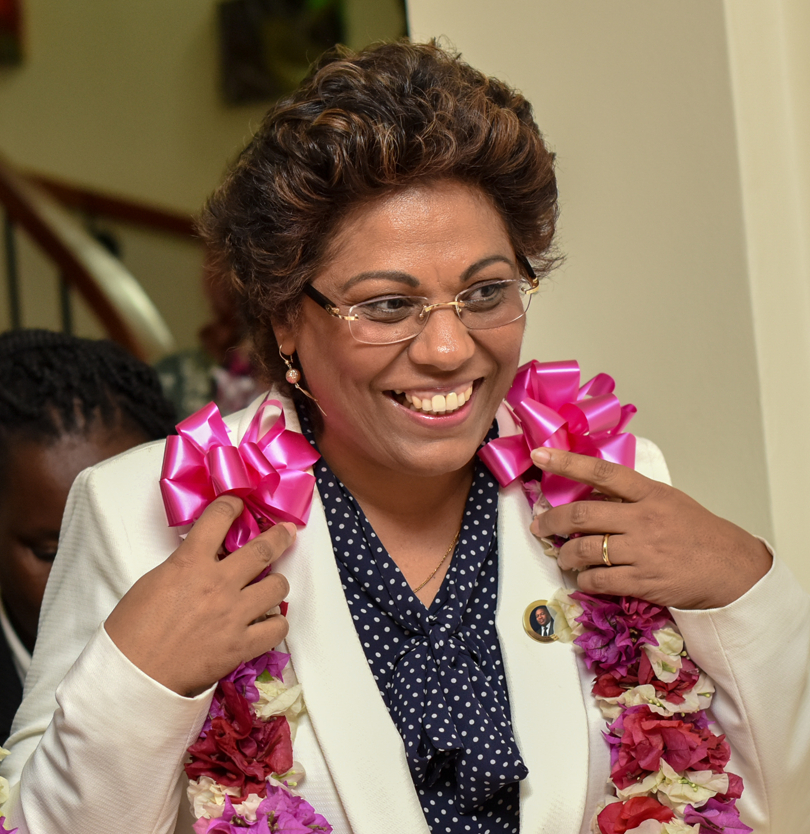 Mozambican Minister of Health, Nazira Abdula, during the 4th of July festivities in Maputo, Mozambique